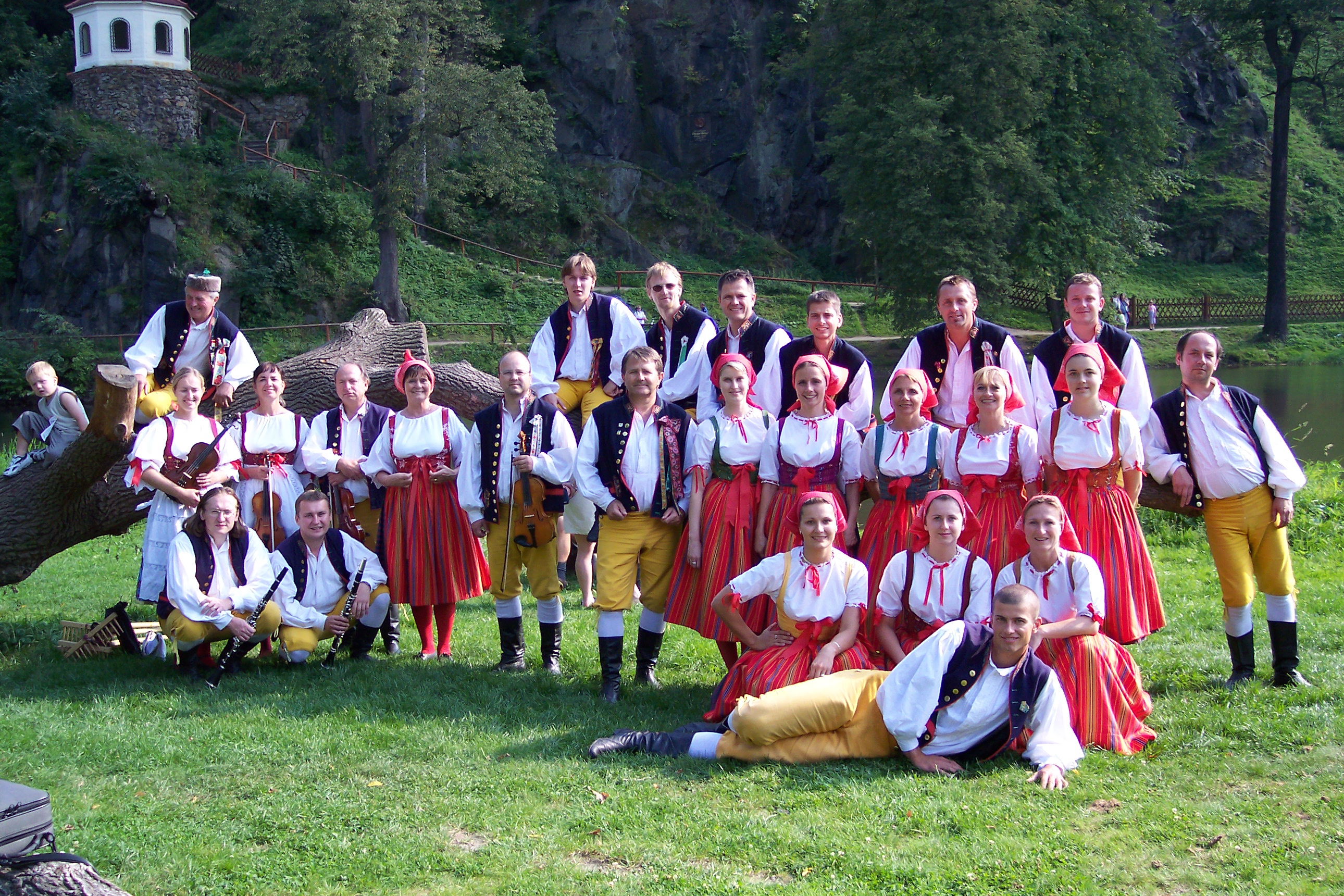 Folklore Ensemble Usmev.